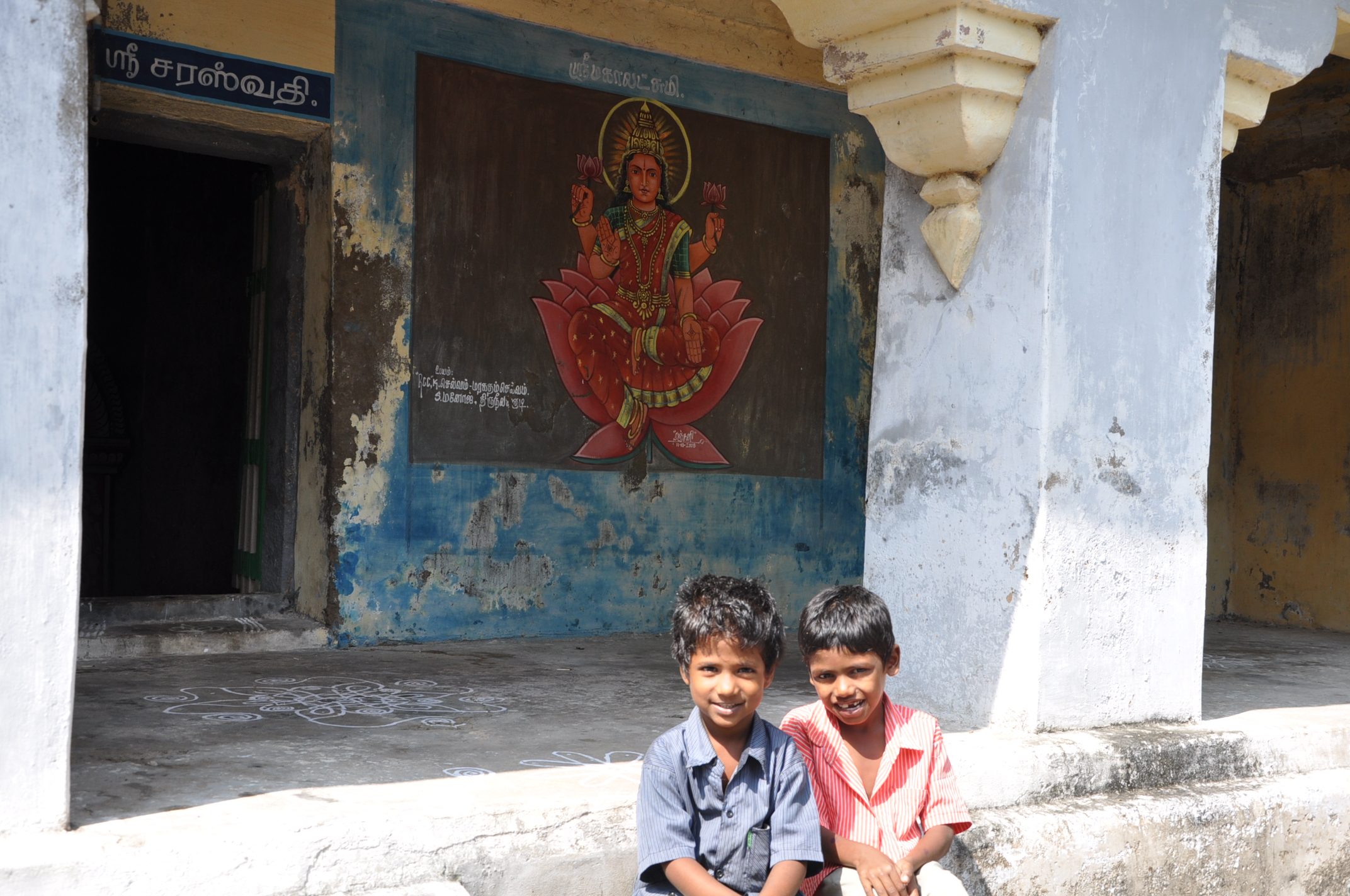 Pic taken at Thiruneelakudi near Kumbakonam in Tamilnadu.